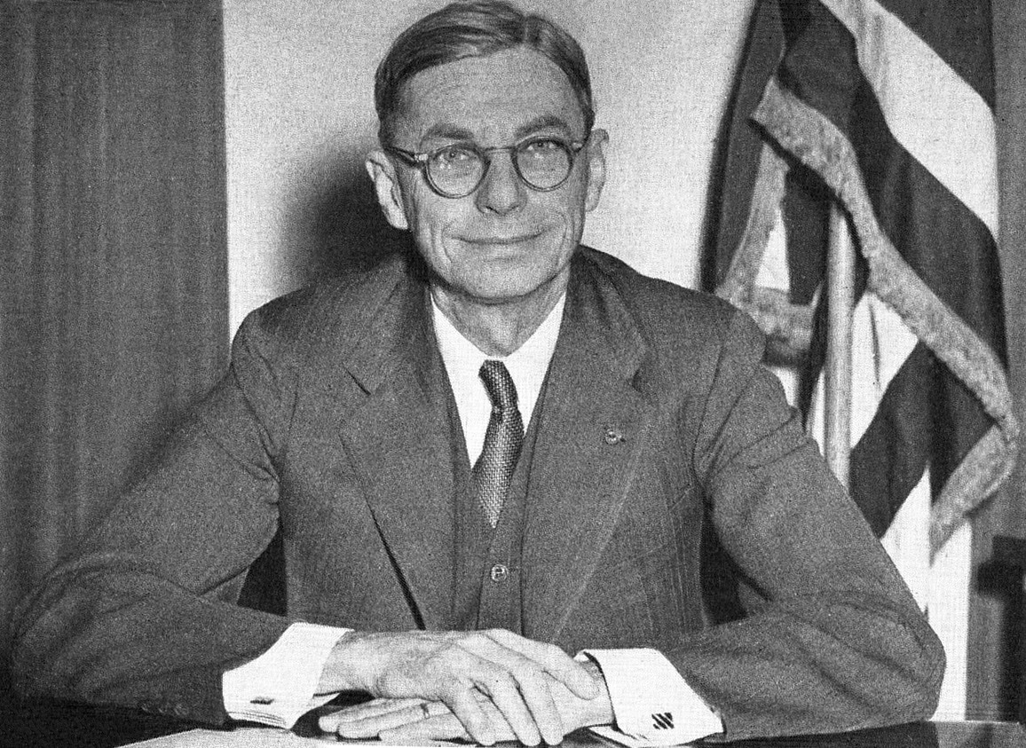 The newly appointed US High Commissioner for Germany Dr.James B.Conant at a press conference in Berlin on February 18th, 1953.